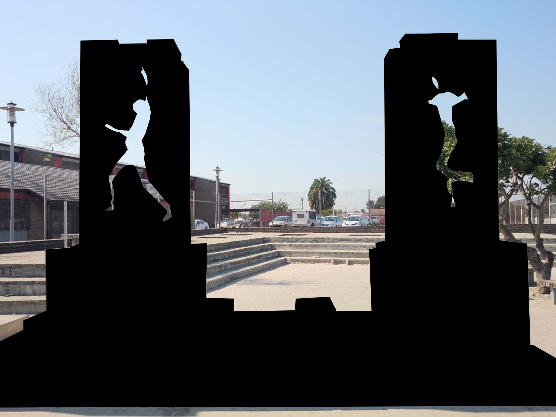 A reduxed version of the Two Statues of Gugulethu Seven Memorial in Gugulethu, Cape Town. Done to illustrate the importance of Freedom of Panorama in South Africa.